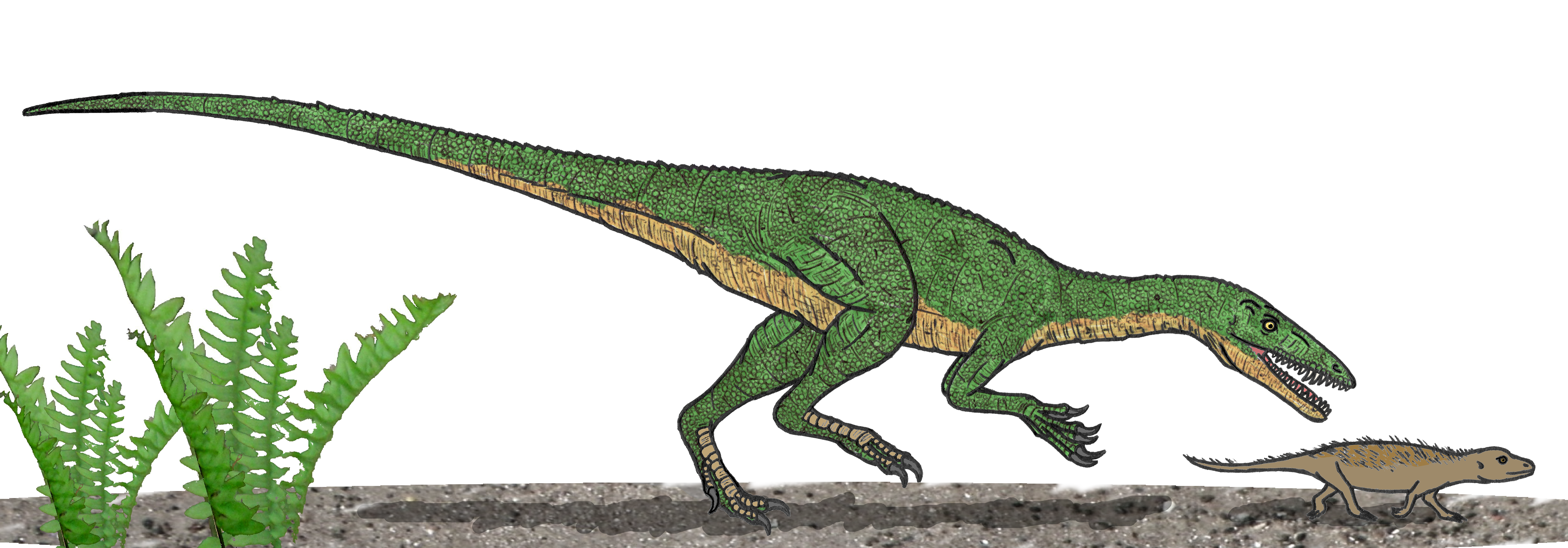 Restoration of the theropod dinosaur Tawa hallae, hunting a small therapsid.